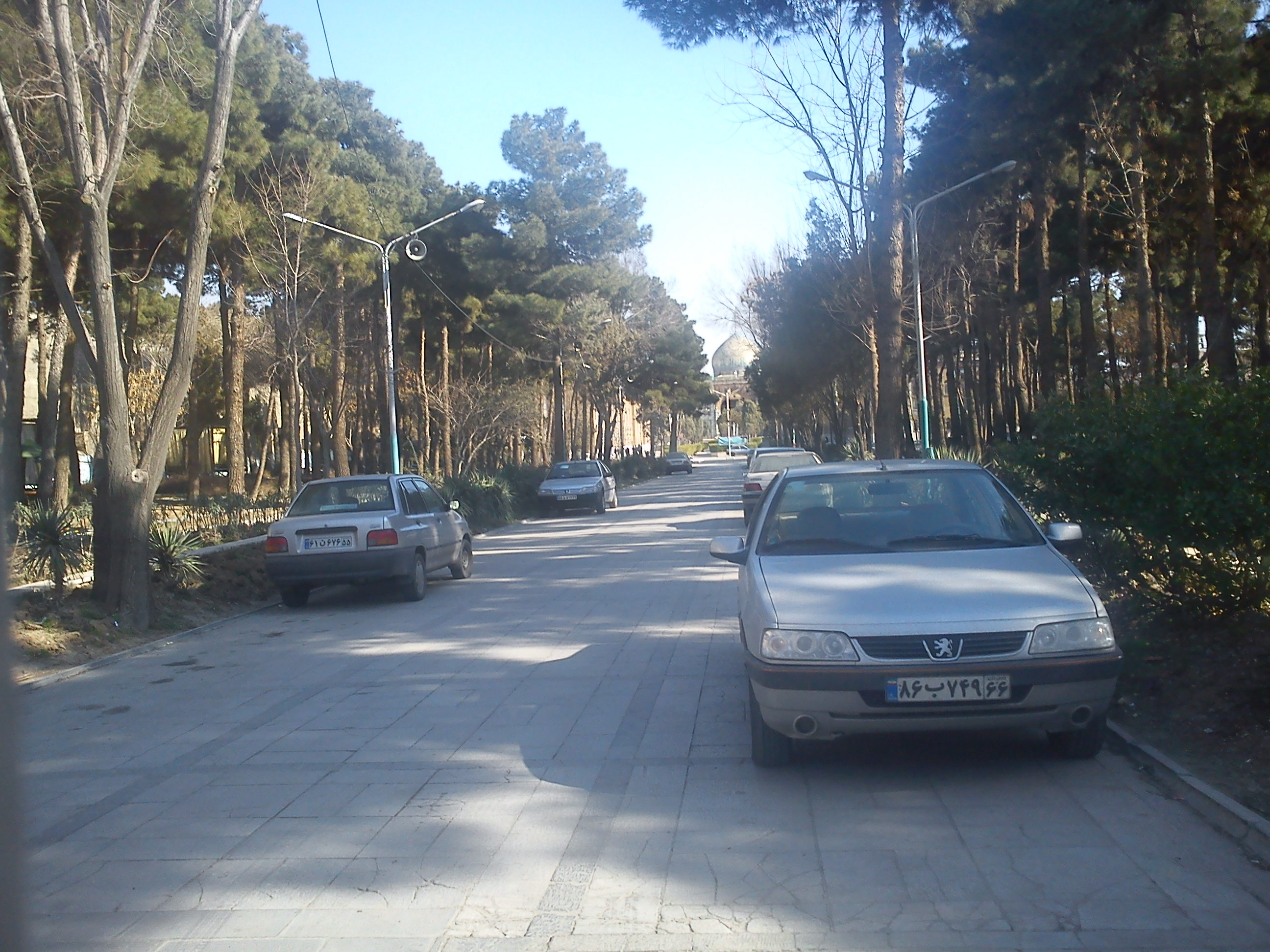 Reza Shah's mausoleum, use after termination.